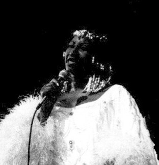 Singer Celia Cruz in Paris, France.